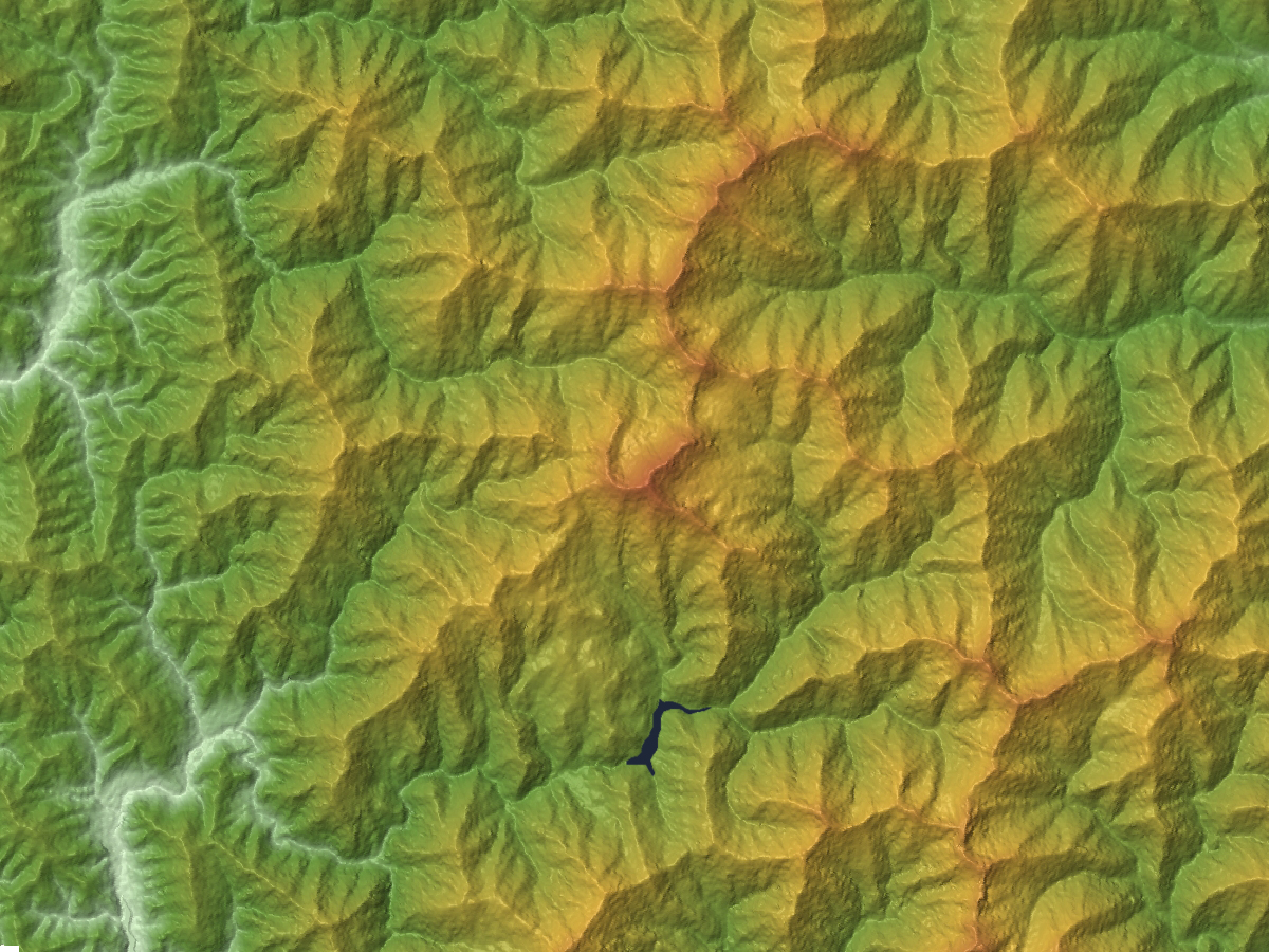 Poroshiridake (Mount Poroshiri) in Hokkaido, Japan.